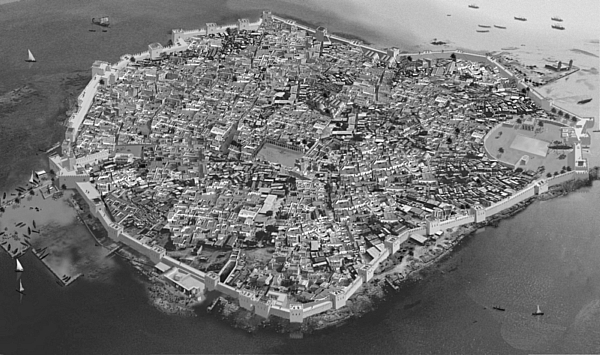 Motya from above(the north at the left), artistic reconstruction of the V century BC urban agglomeration, gates of the city, fortifications and coast. November 2011.